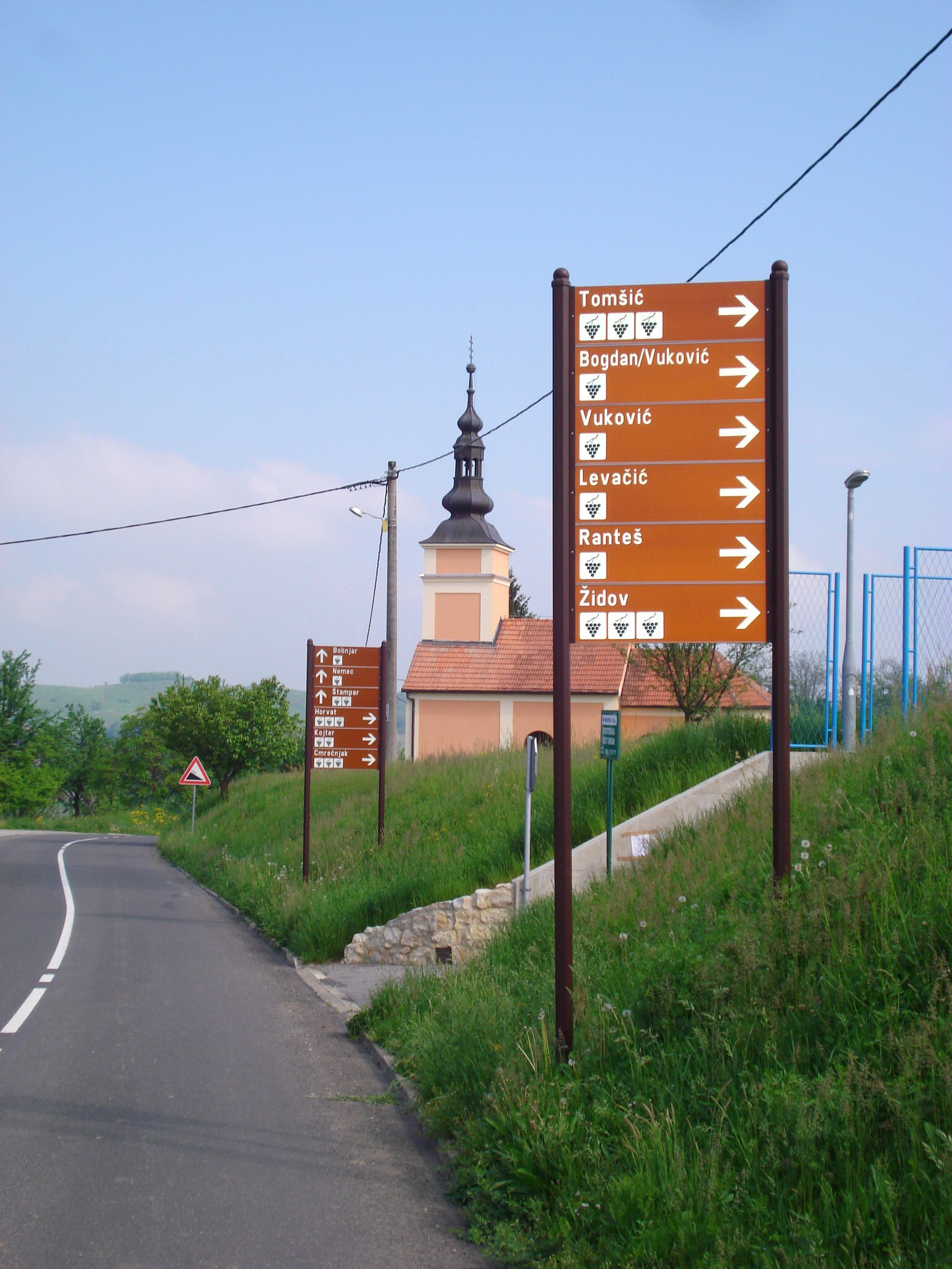 Two Međimurje Wine Road signs in Sveti Urban (Croatia)